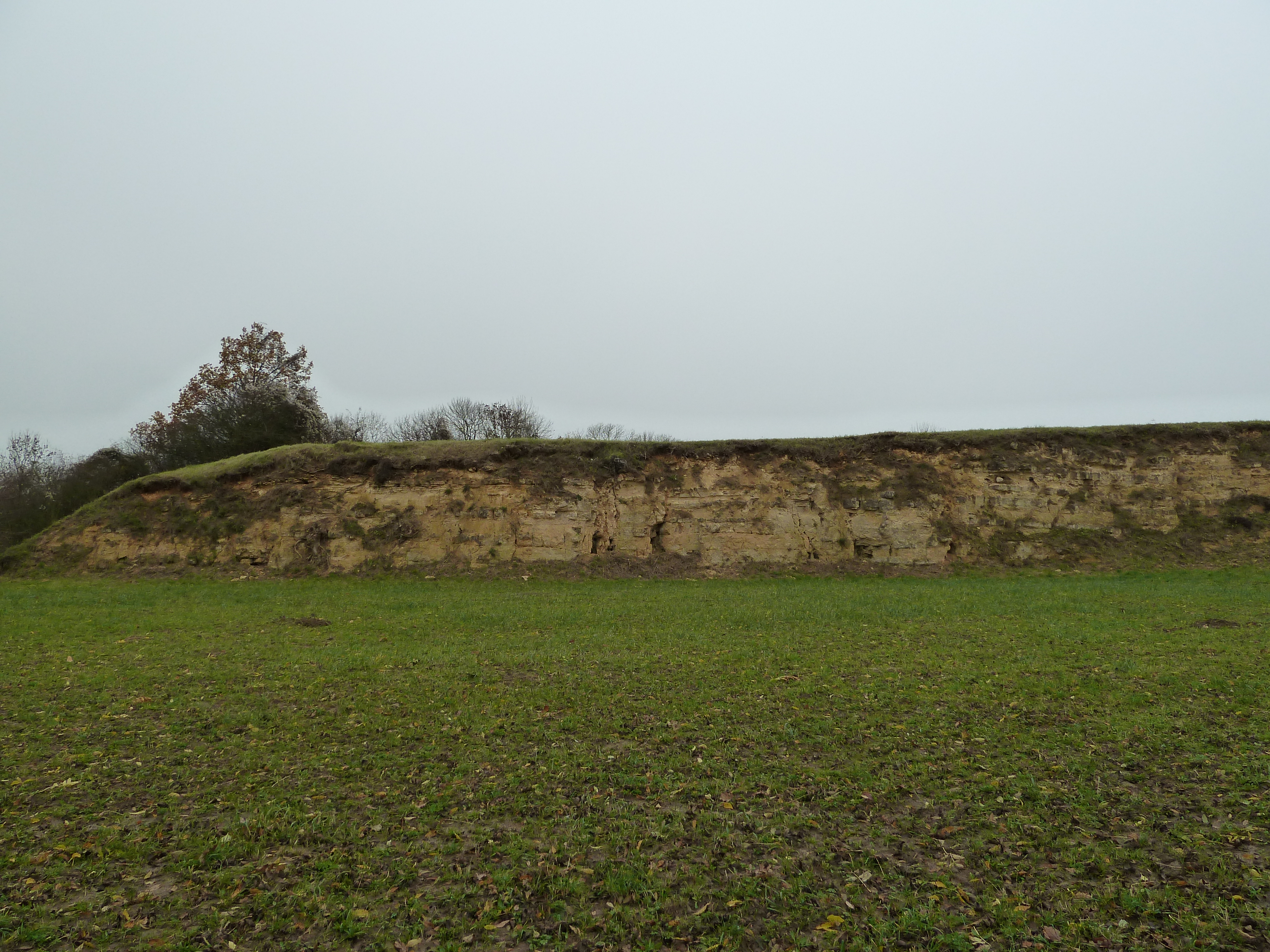 Mining at Kalkovenweg, Voerendaal, Limburg, the Netherlands